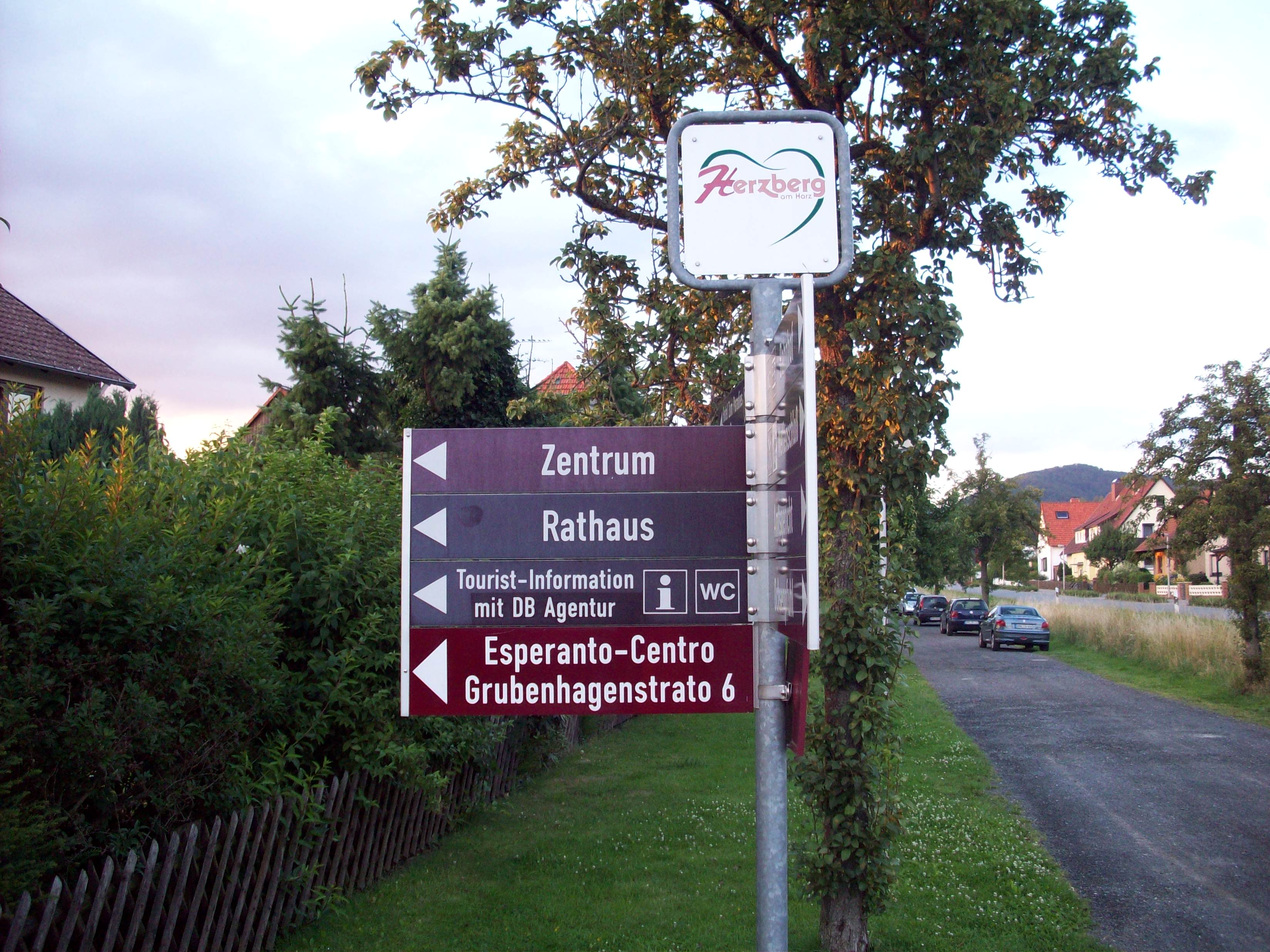 Arrow to the Esperanto Center in Herzberg, Germany